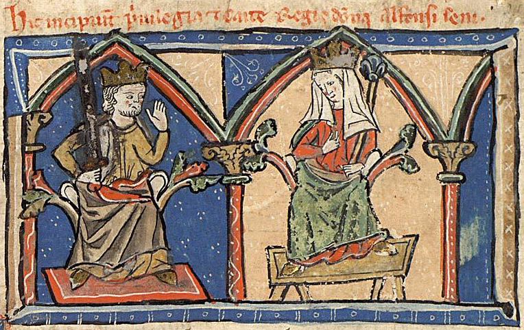 Tumbo de Toxos Outos- Alfonso IX of León and Berenguela of Castile